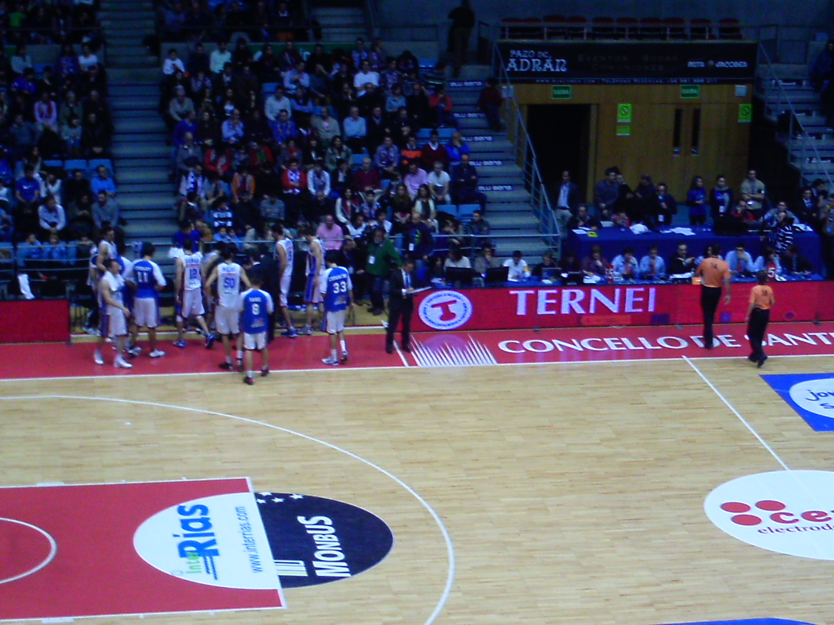 Obradoiro CAB in december of 2012